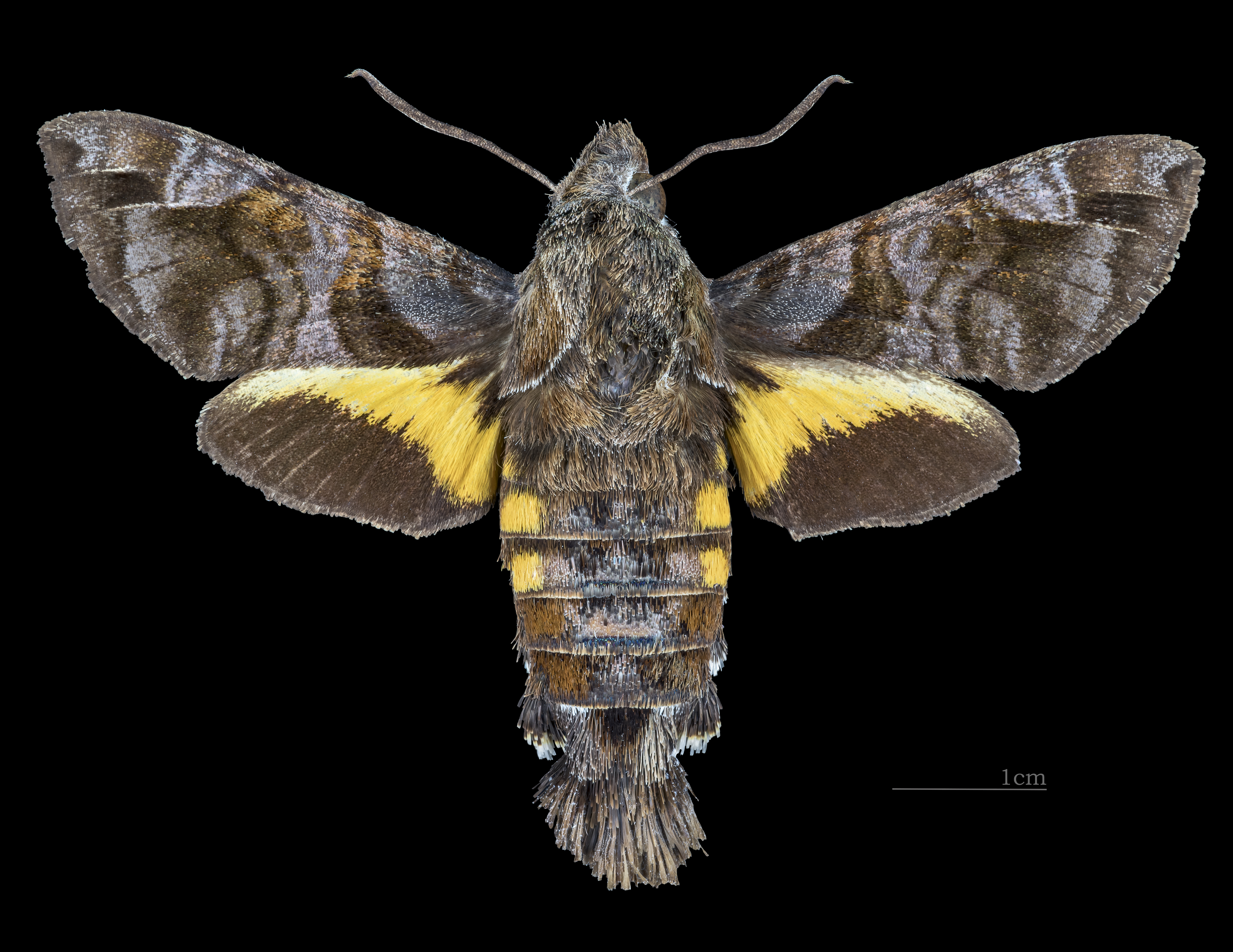 Hermit hummingbird hawkmoth - Dorsal side Collection of the Mathematician Laurent Schwartz